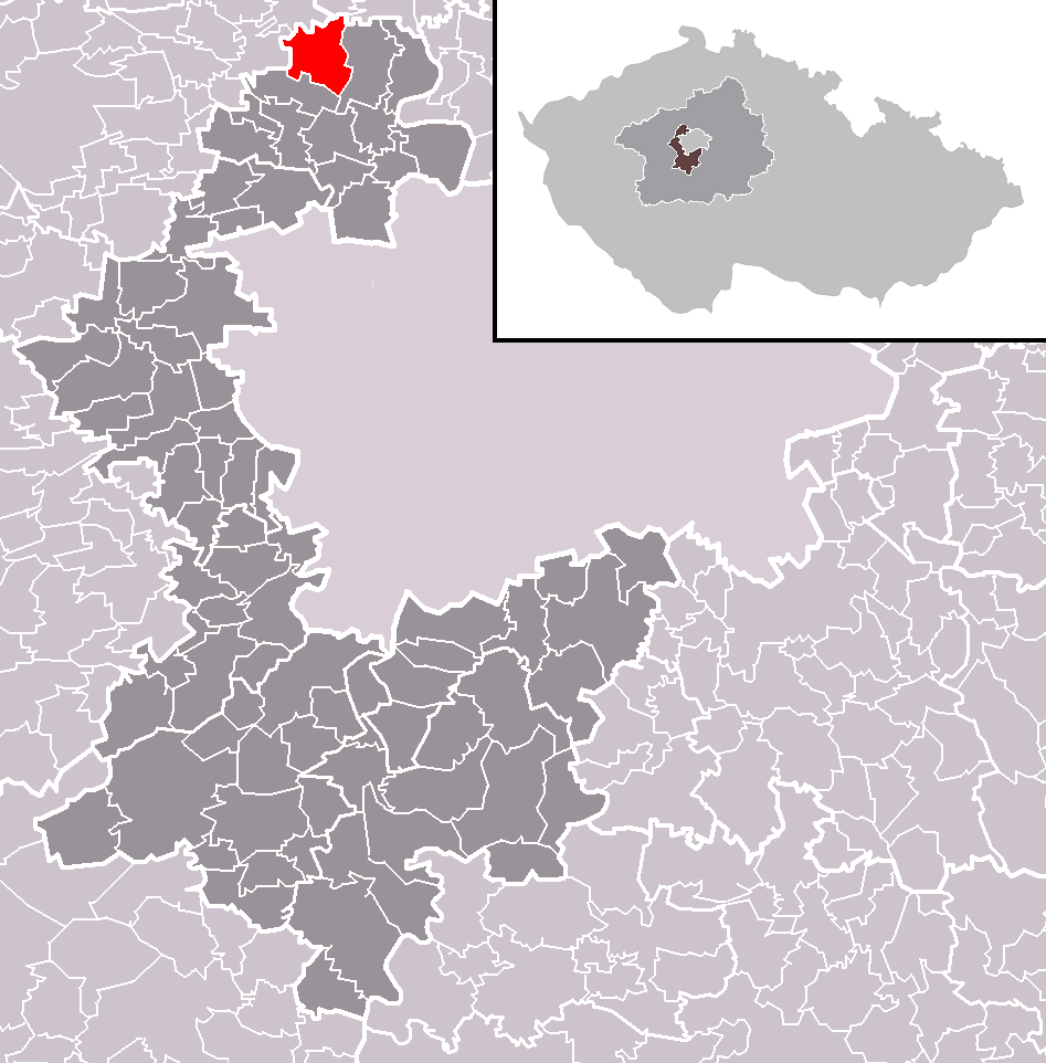 Location of Holubice municipality within Prague-West District and administrative area of Černošice as a Municipality with Extended Competence.